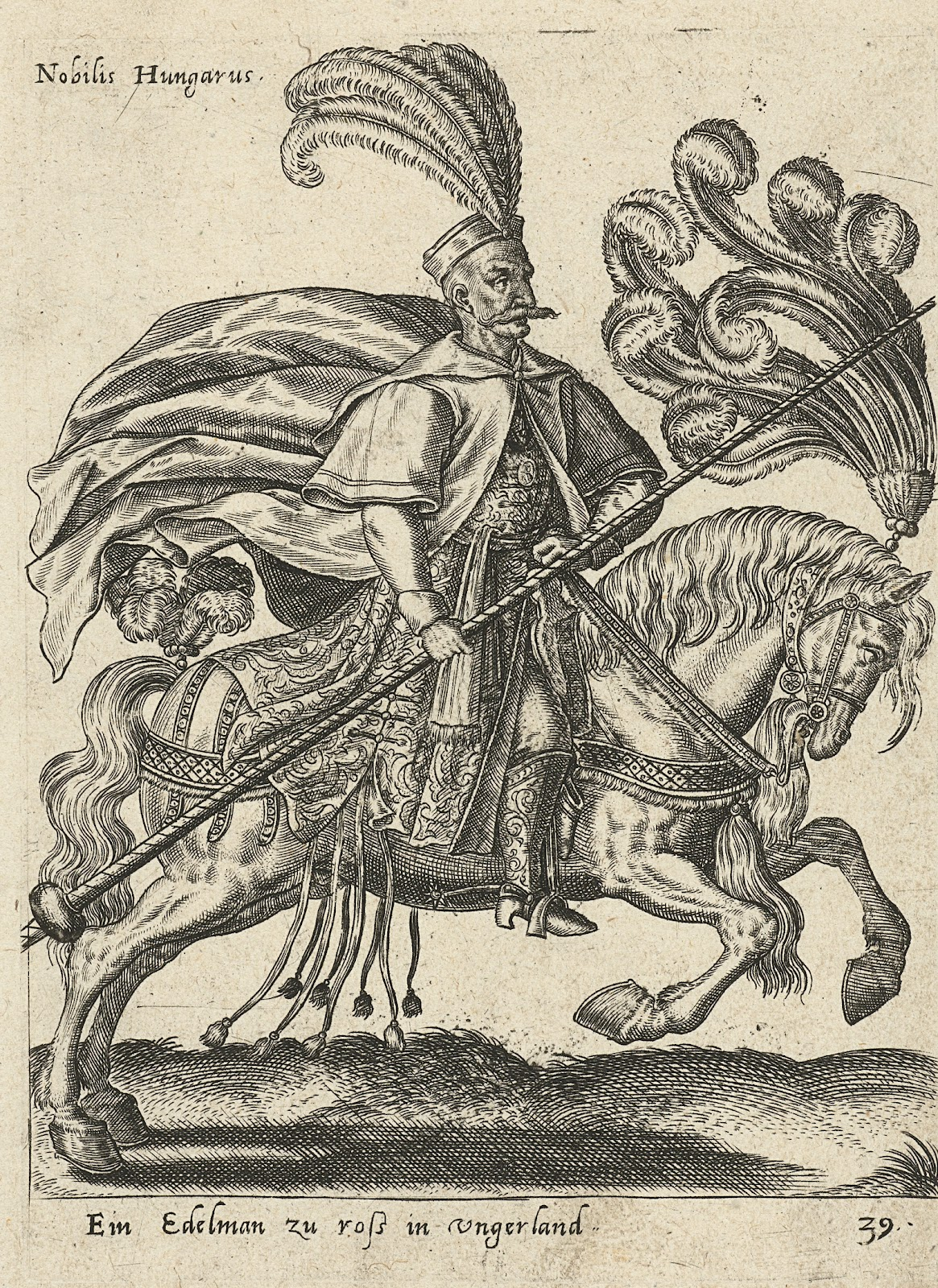 Hungarian hussar